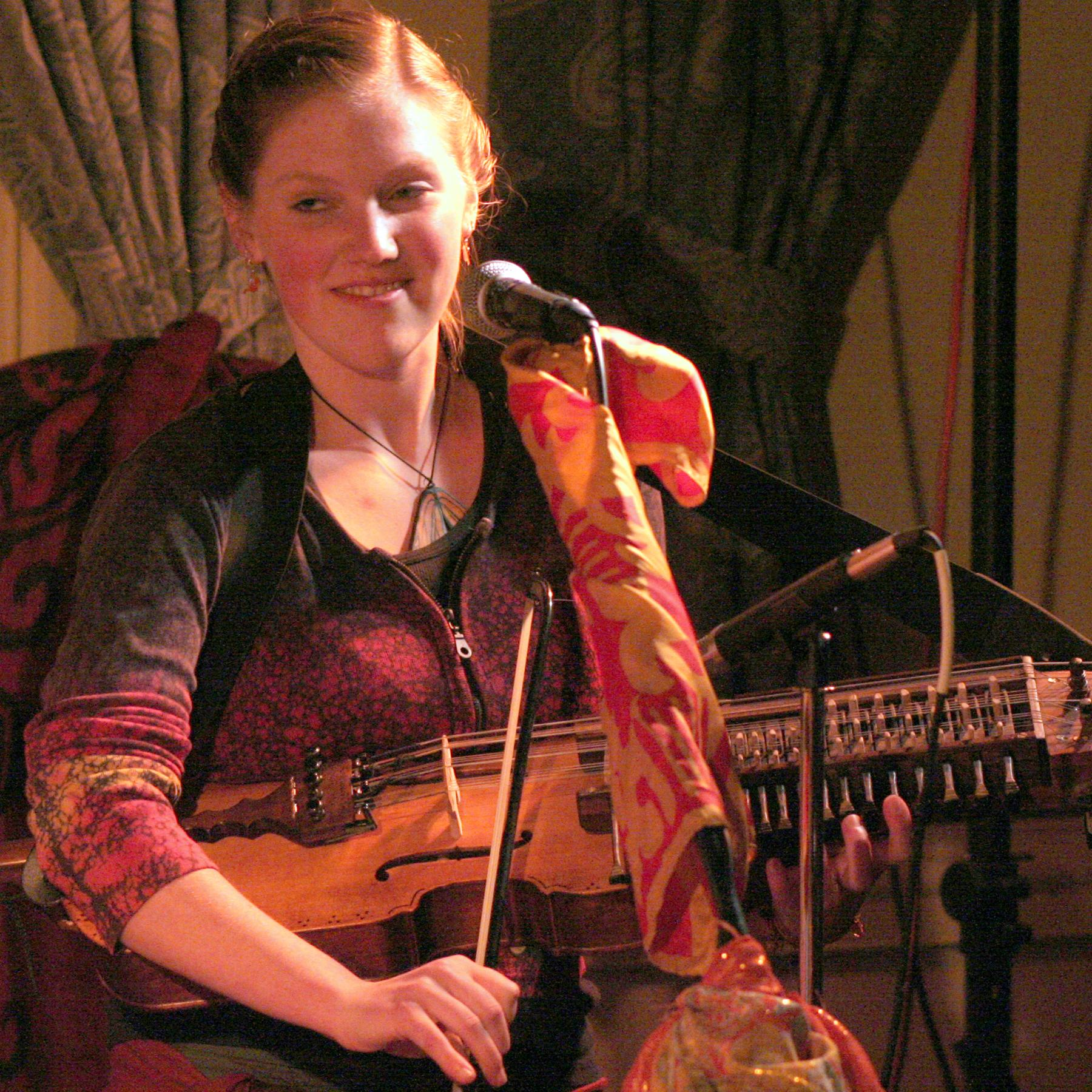 Bronwyn Bird plays the nyckelharpa in the folk music quartet "Blue Moose and the Unbuttoned Zippers". Photographed at a live concert in Cafe Blue Hills in Milton, Massachusetts.